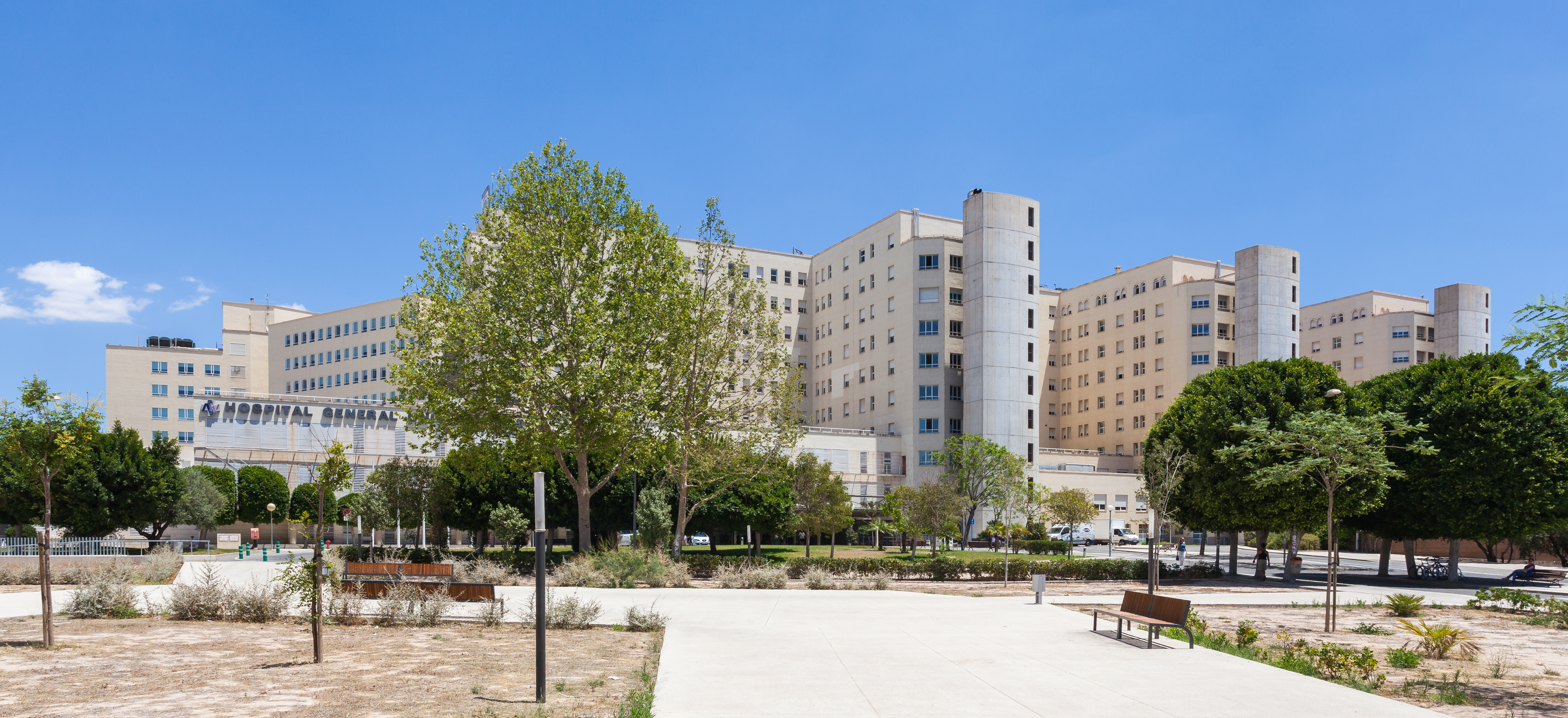 General University Hospital of Alicante, Spain